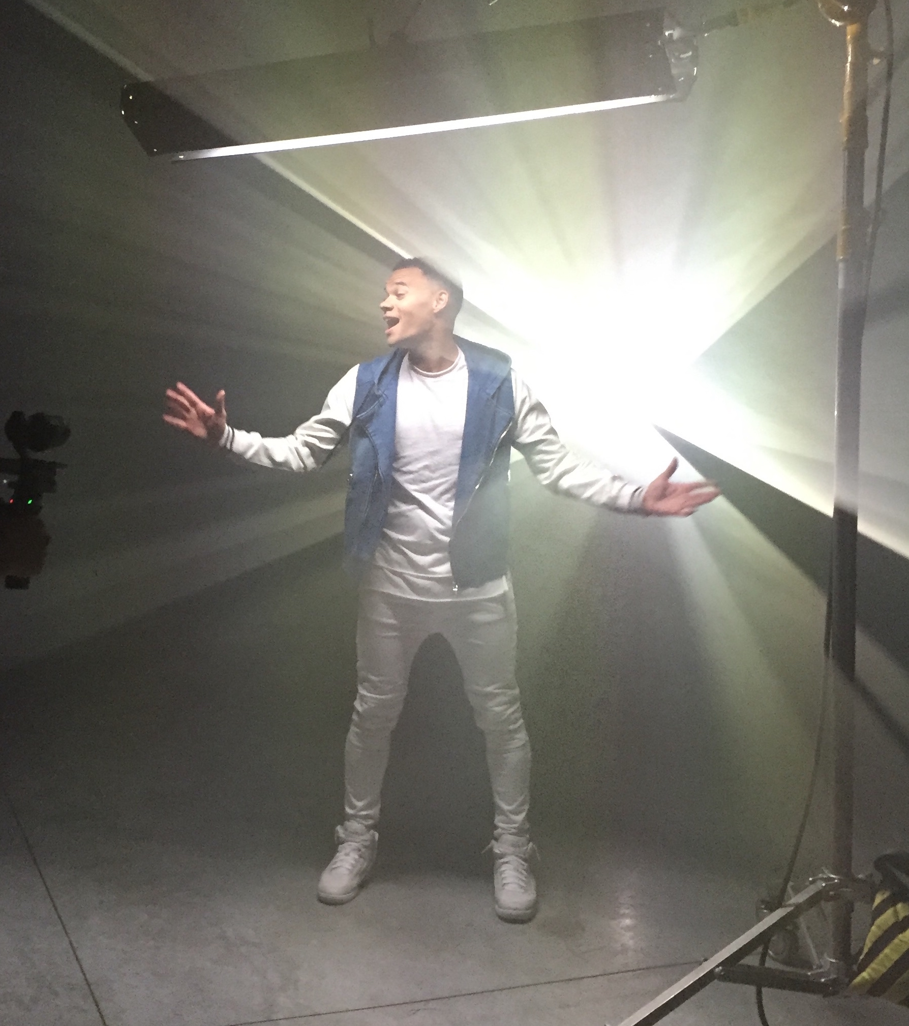 Tauren Wells on the set of the Love Is Action video.